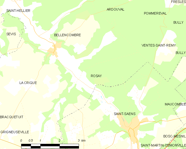 Map of French municipality Rosay